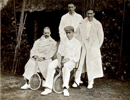 British and Belgium Davis Cup teams. From left: (sitting) William le Maire de Warzée (sitting) Paul de Borman Reginald Doherty Lawrence Doherty